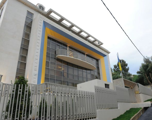 Embassy of Ukraine in Lebanon building